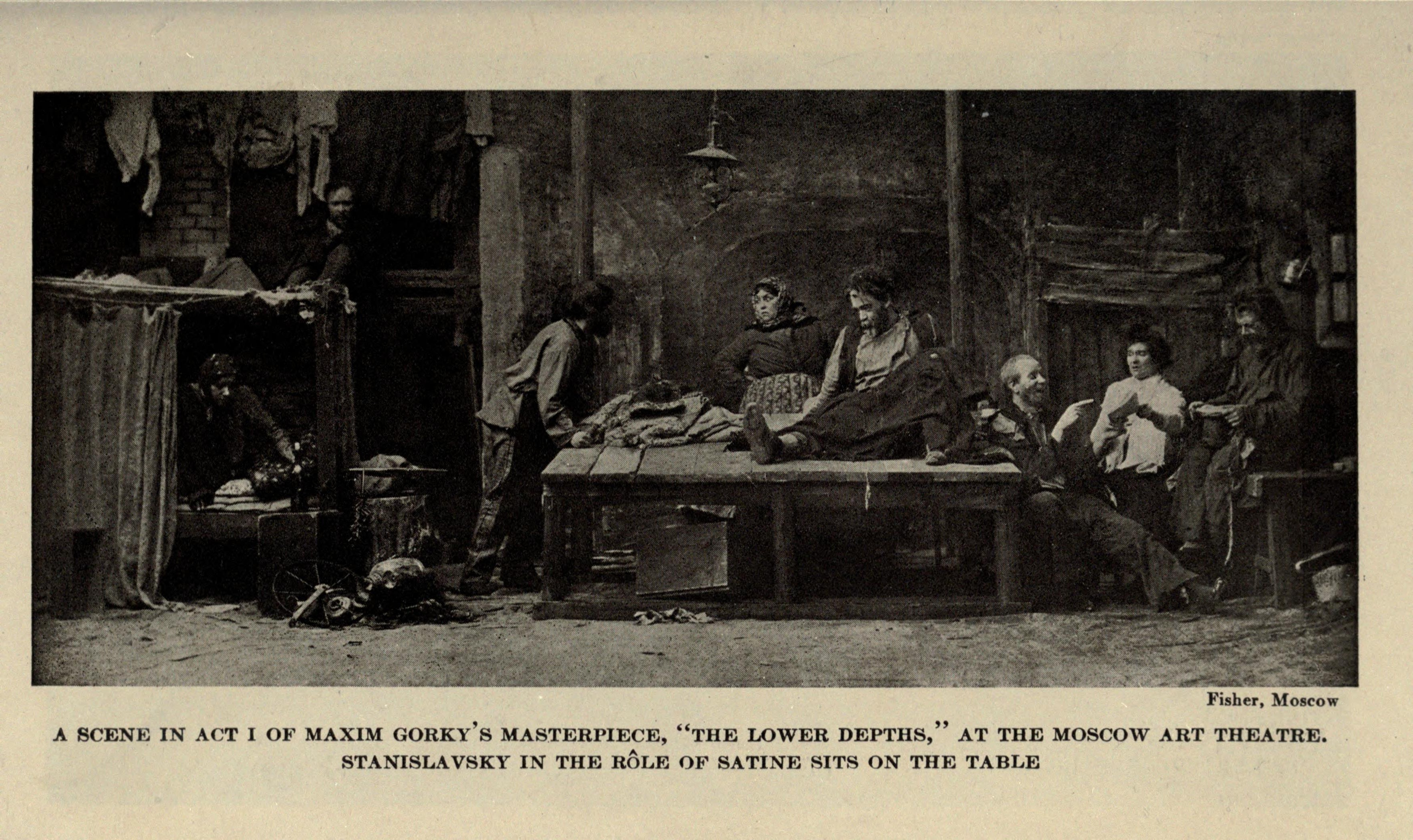 A Scene from The Lower Depths by Gorky